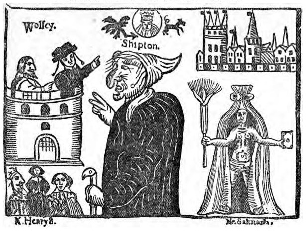 scan of the frontispiece of Mother Shipton investigated: the result of critical examination in the British Museum Library of the literature relating to the Yorkshire sibyl (1881)